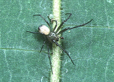 male Leucauge crucinota from Okinawa.